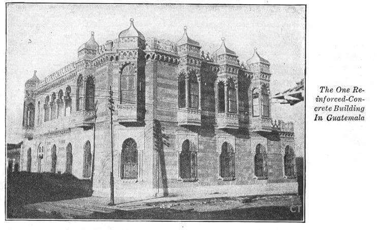 Edificio estilo mudéjar en Ciudad de Guatemala en 1918. Sobrevivió el terremoto de 1918.